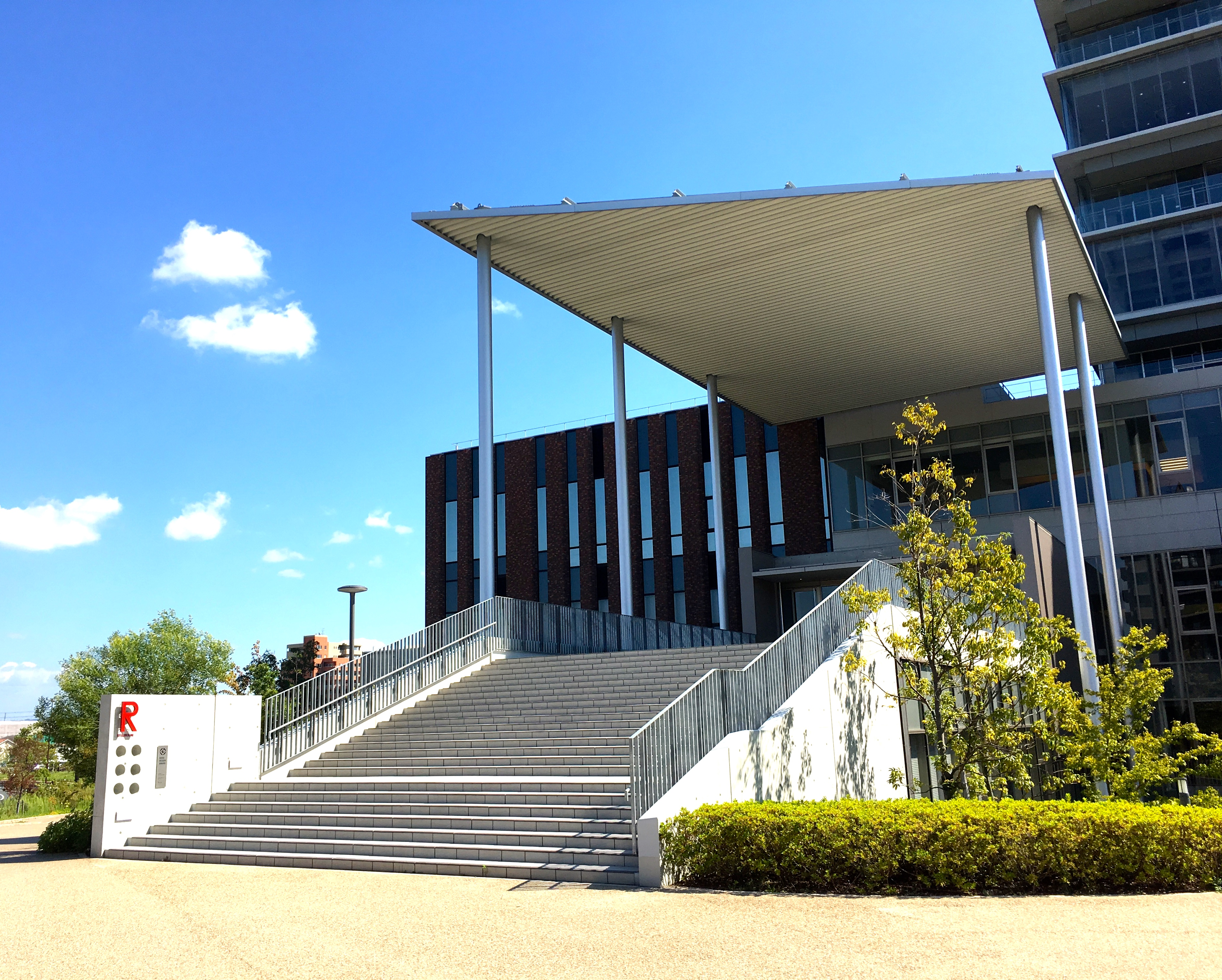 Building A and its entrance at Ritsumeikan Univ Osaka Ibaraki Campus